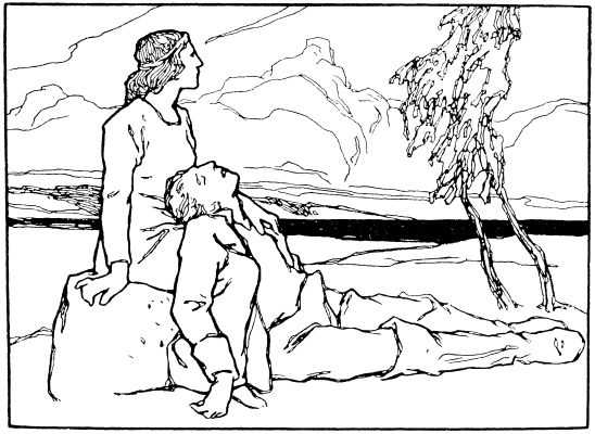 Illustration by Otto Ubbelohde to the fairy tale The King of the Golden Mountain